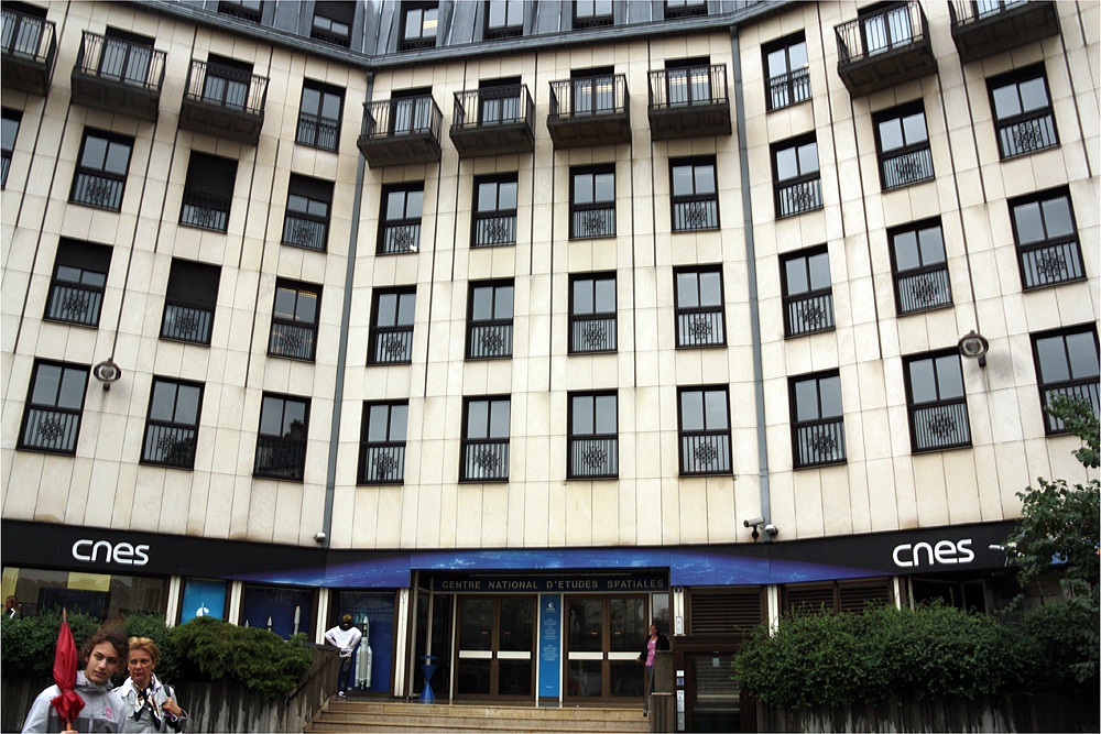 CNES , 2 Place Maurice Quentin, 75001 Paris, France